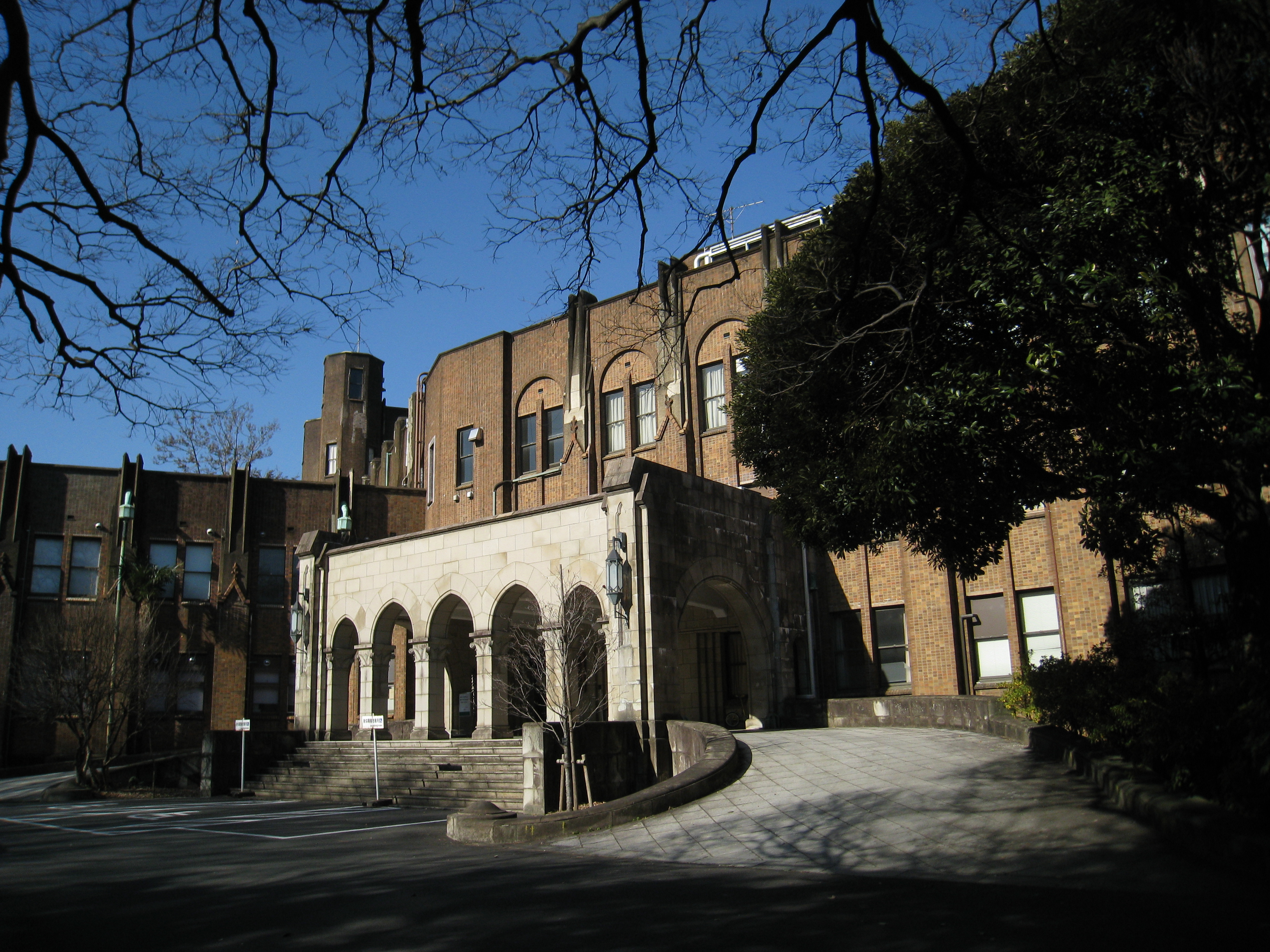 Research Hospital The Institute of Medical Science The University of Tokyo